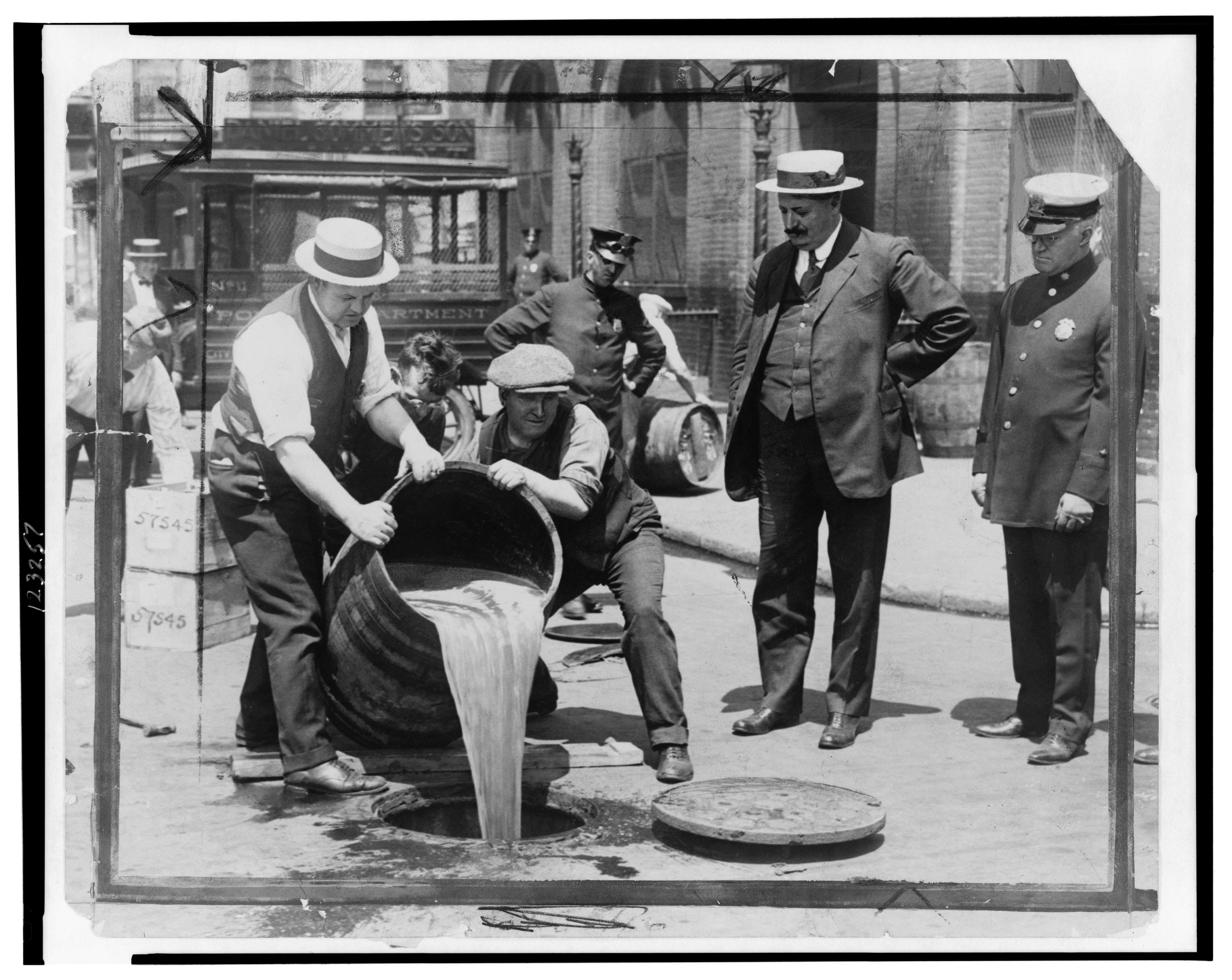 New York City Deputy Police Commissioner John A. Leach, right, watching agents pour liquor into sewer following a raid during the height of prohibition